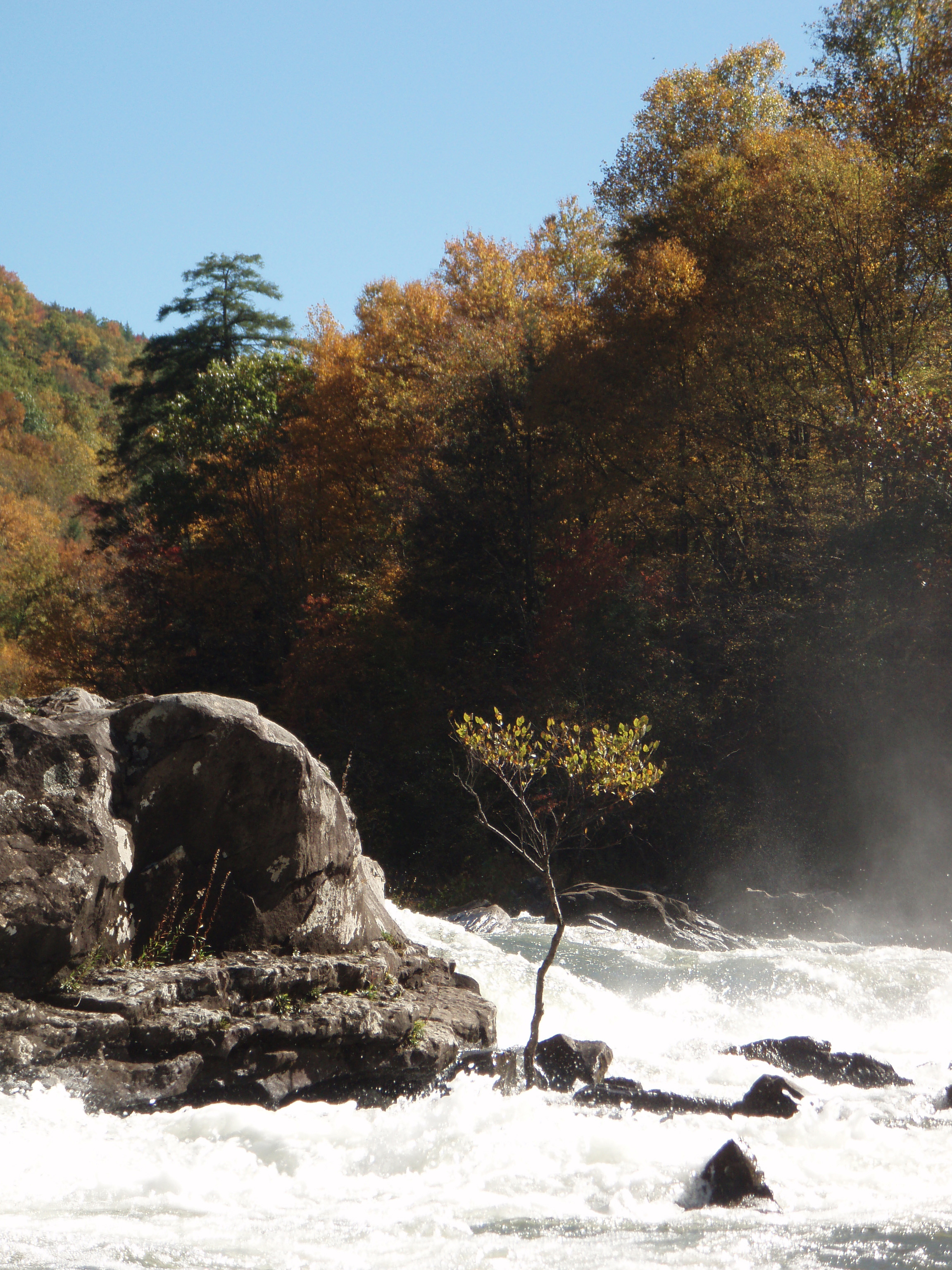 Sweet Falls, West Virginia. Taken by wwkayaker22.